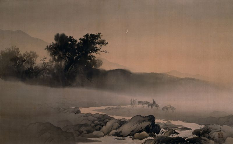 New Moon, Sumi and color on silk, hanging scroll, the first prize of Tokyo industry exhibition in 1907.